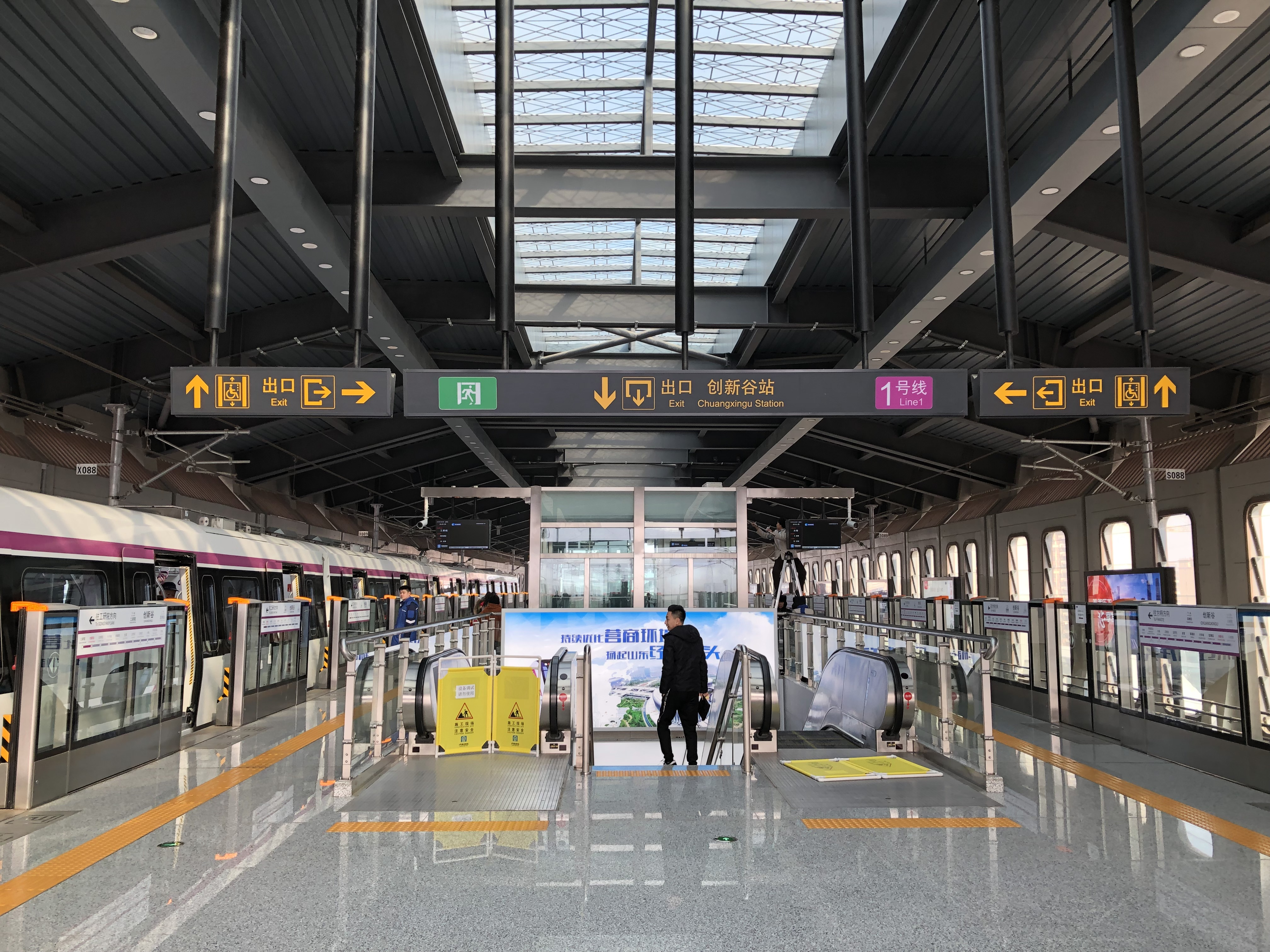 Chuangxingu Station.